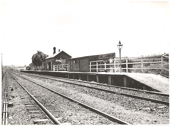 Shellharbour Railway Station Dated: No date Digital ID: 17420_a014_a014000816 Rights: We'd love to hear from you if you use our photos. Many other photos in our collection are available to view and browse on our website using Photo Investigator.